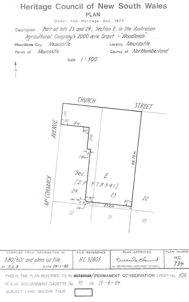 Woodlands, Newcastle: PCO Plan Number 306